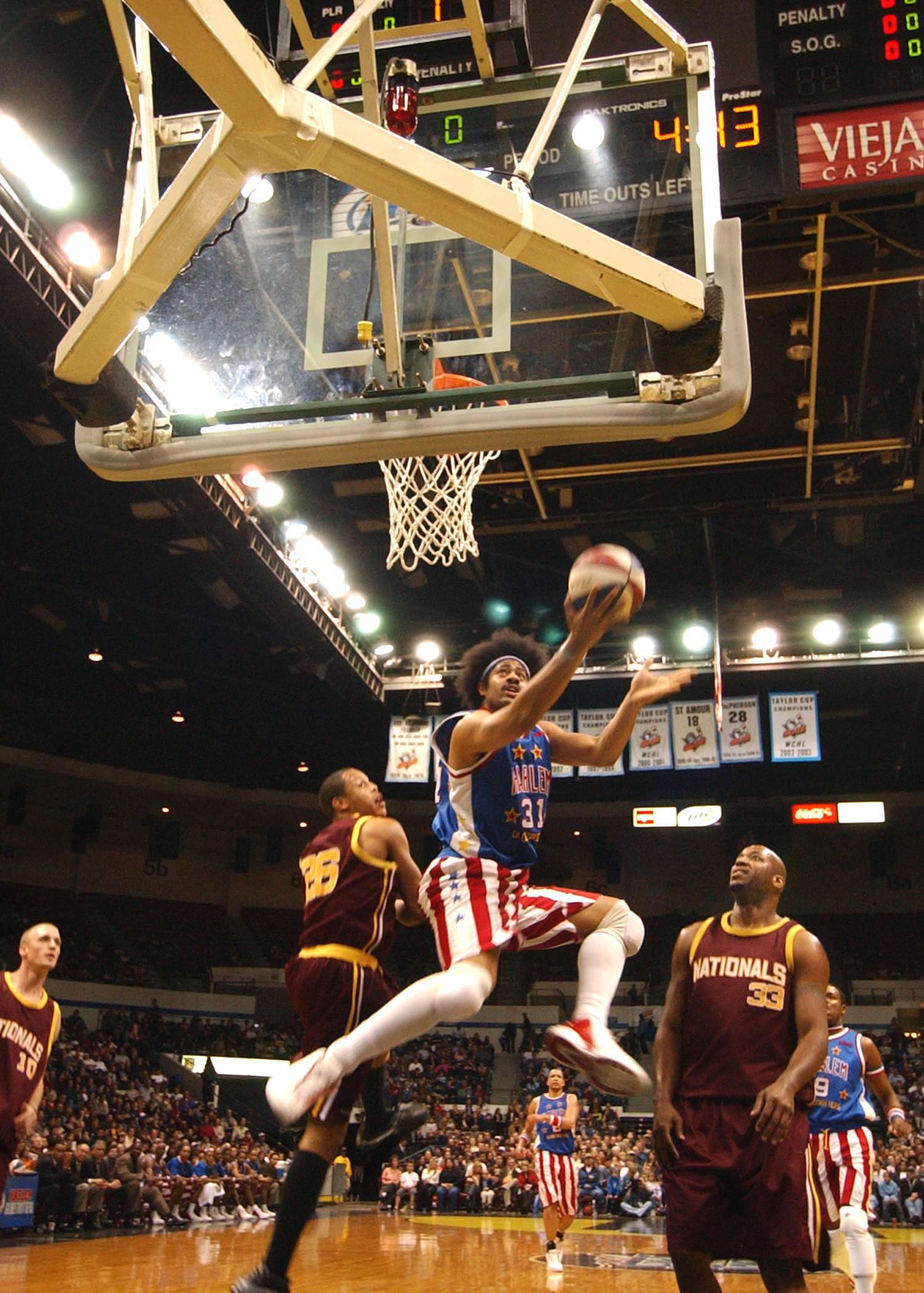 040220-N-3874J-004 San Diego, Calif. (Feb. 20, 2004) – Military service members and their families from the around the San Diego area, watch as Eugene “Killer” Edgerson of the “world-famous” Harlem Globetrotters go for the slam-dunk over the heads of the hapless New York Nationals at the San Diego Sports Arena. The “Ambassadors of Goodwill” have been entertaining audiences for over 75 years. Famous Globetrotters such as Wilt Chamberlain, Curly Neal, and Meadowlark Lemon have performed for more than 100 million fans in 115 countries. U.S. Navy photo by Photographer’s Mate 2nd Class Daniel A. Jones. (RELEASED)